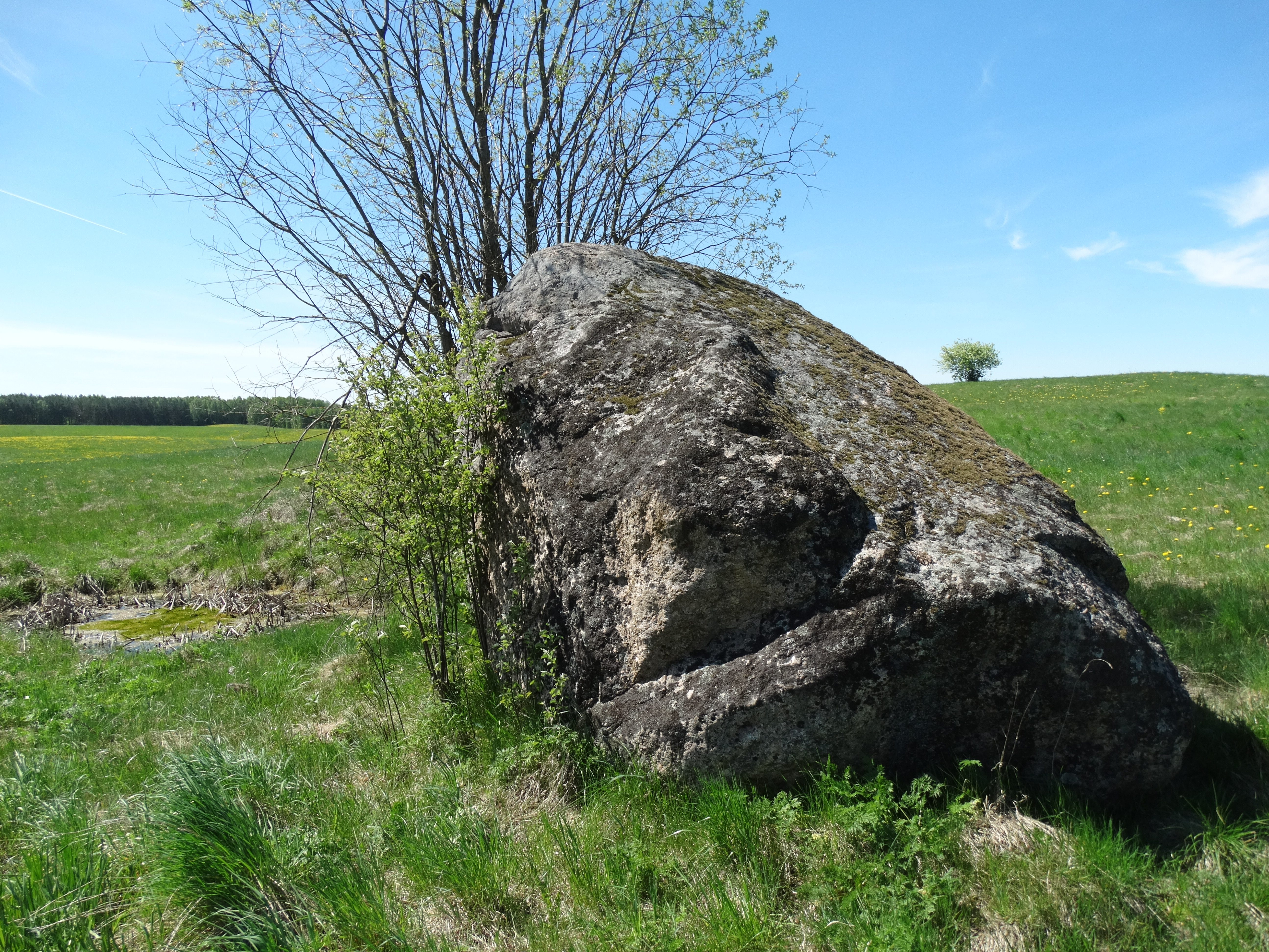 Stone in Mindučiai, Molėtai District, Lithuania